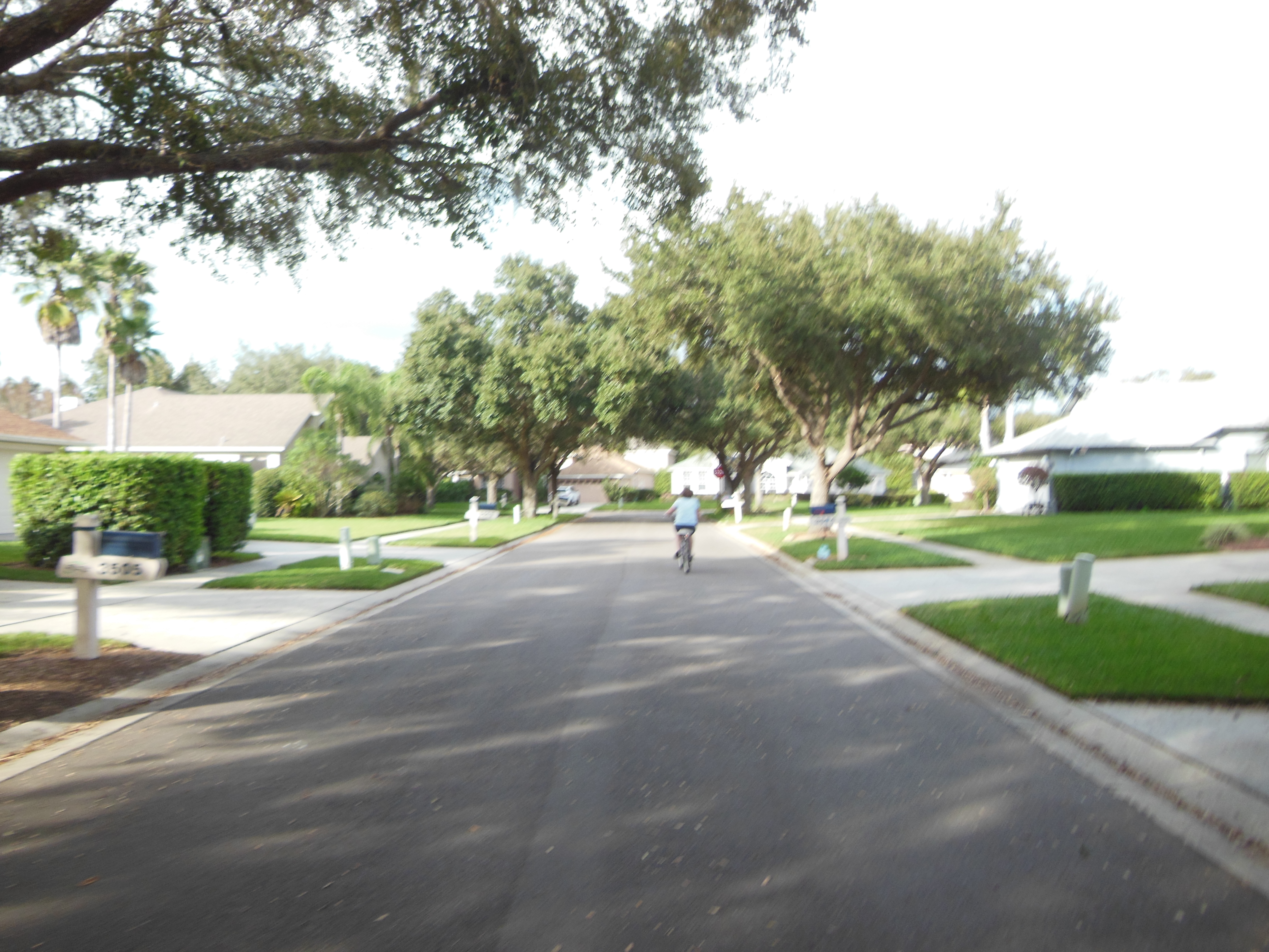 Cyclist in River Hills, Valrico, Fl January 4, 2015